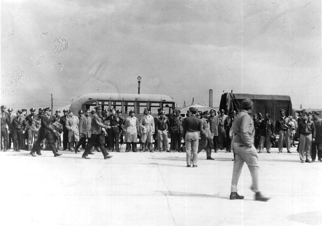 This is a slightly cropped image of part of a group of 101 African-American United States Army Air Forces officers of the 477th Bombardment Group (Medium) at Freeman Field, Indiana, about to board air transports to take them to Godman Field, Kentucky. The officers were under arrest for refusing to sign a document acknowledging that they had read a regulation denying them access to an all-white officers' club. The photo was taken in April 1945, probably by Master Sergeant Harold J. Beaulieu, Sr., who hid a camera in a shoebox. (See James C. Warren, The Freeman Field Mutiny, ISBN 0-9641067-2-8, p. 93.) A similar photo taken by Beaulieu appeared in the Pittsburgh Courier. Photos taken at the scene by another African-American photographer reportedly were destroyed by a white officer. (Warren at p. 92.)